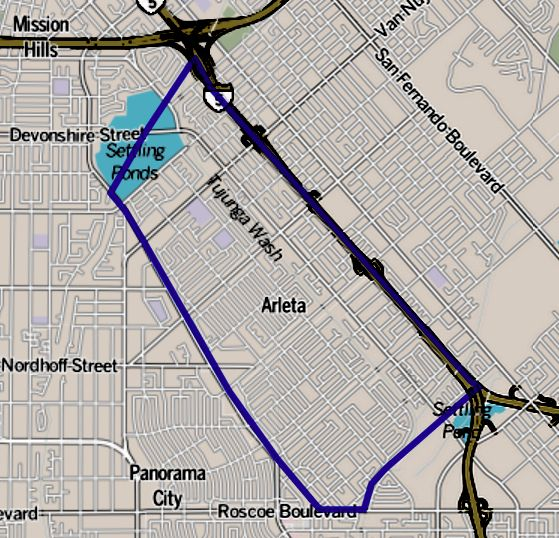 Map of Arleta, California, as drawn by the Los Angeles Times. Other information Boundary map as drawn by the Los Angeles Times on a CC-by-SA background. Note at bottom right of map on the L.A. Times website noted above says "CC-by-SA" (which gives permission to use the map). There is a link there to which explains the meaning thereof. The base map is credited to The Times spells all this out at